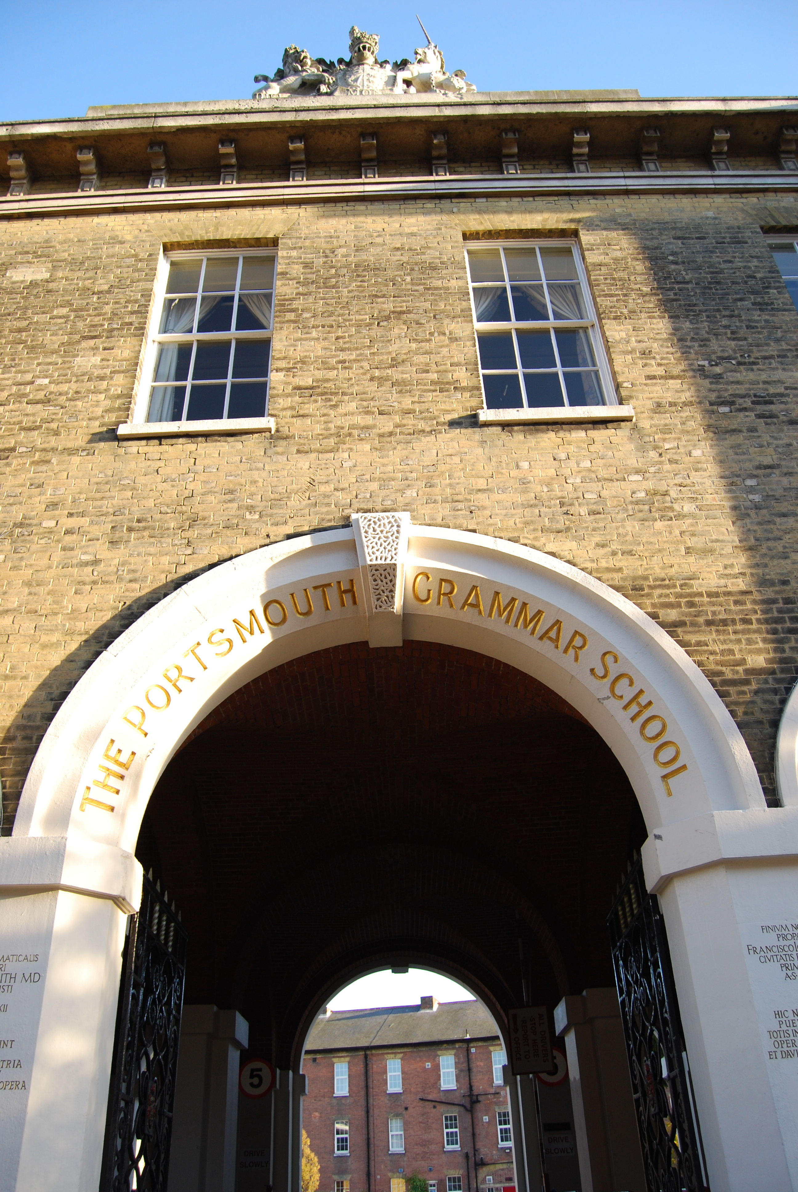 Photograph showing detail of the entrance archway to Portsmouth Grammar School, High Street, Old Portsmouth, United Kingdom